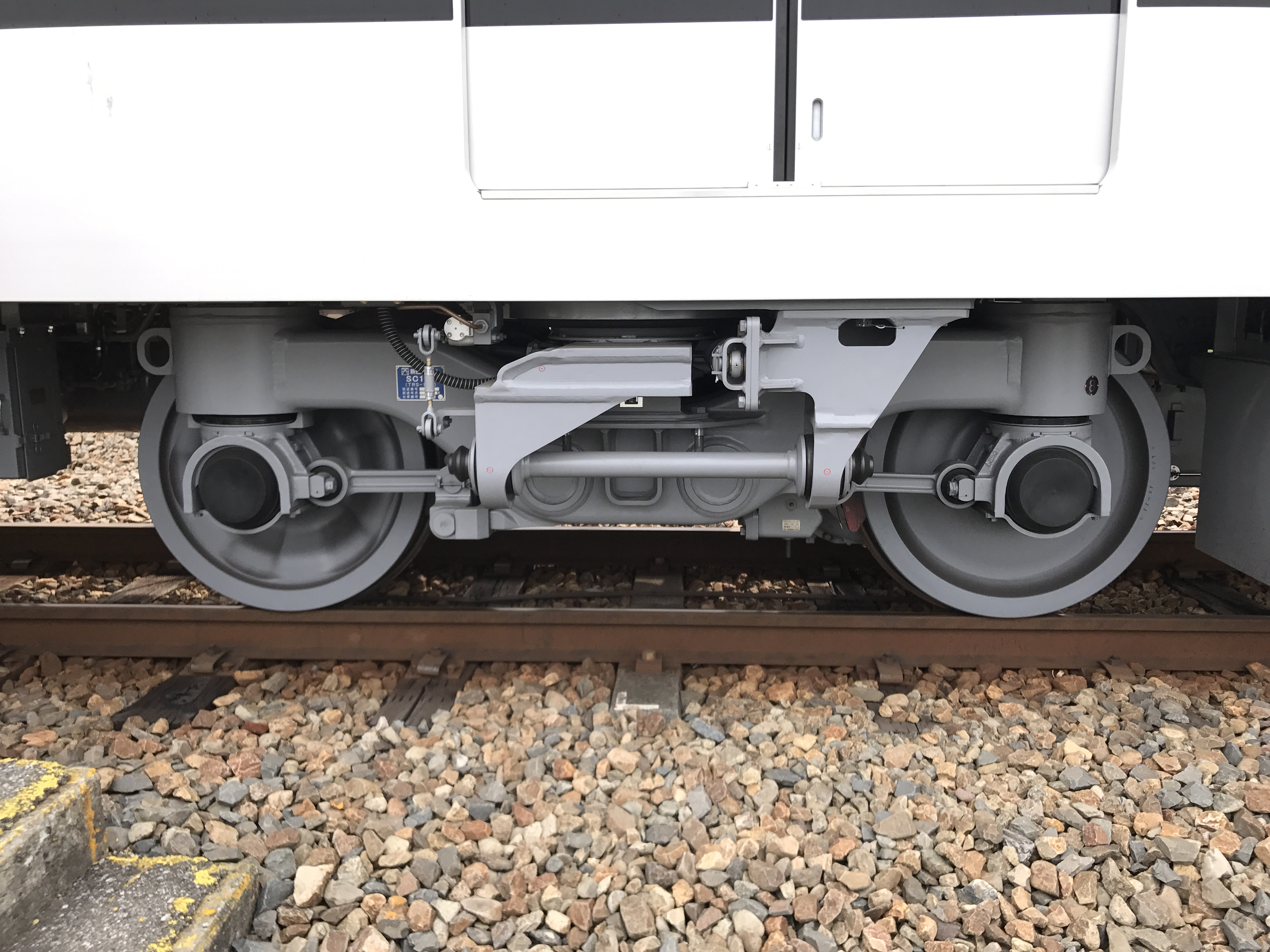 A TRS-17M motor bogie (Nippon Steel & Sumitomo Metal type SC107) on a Tobu 70000 series EMU